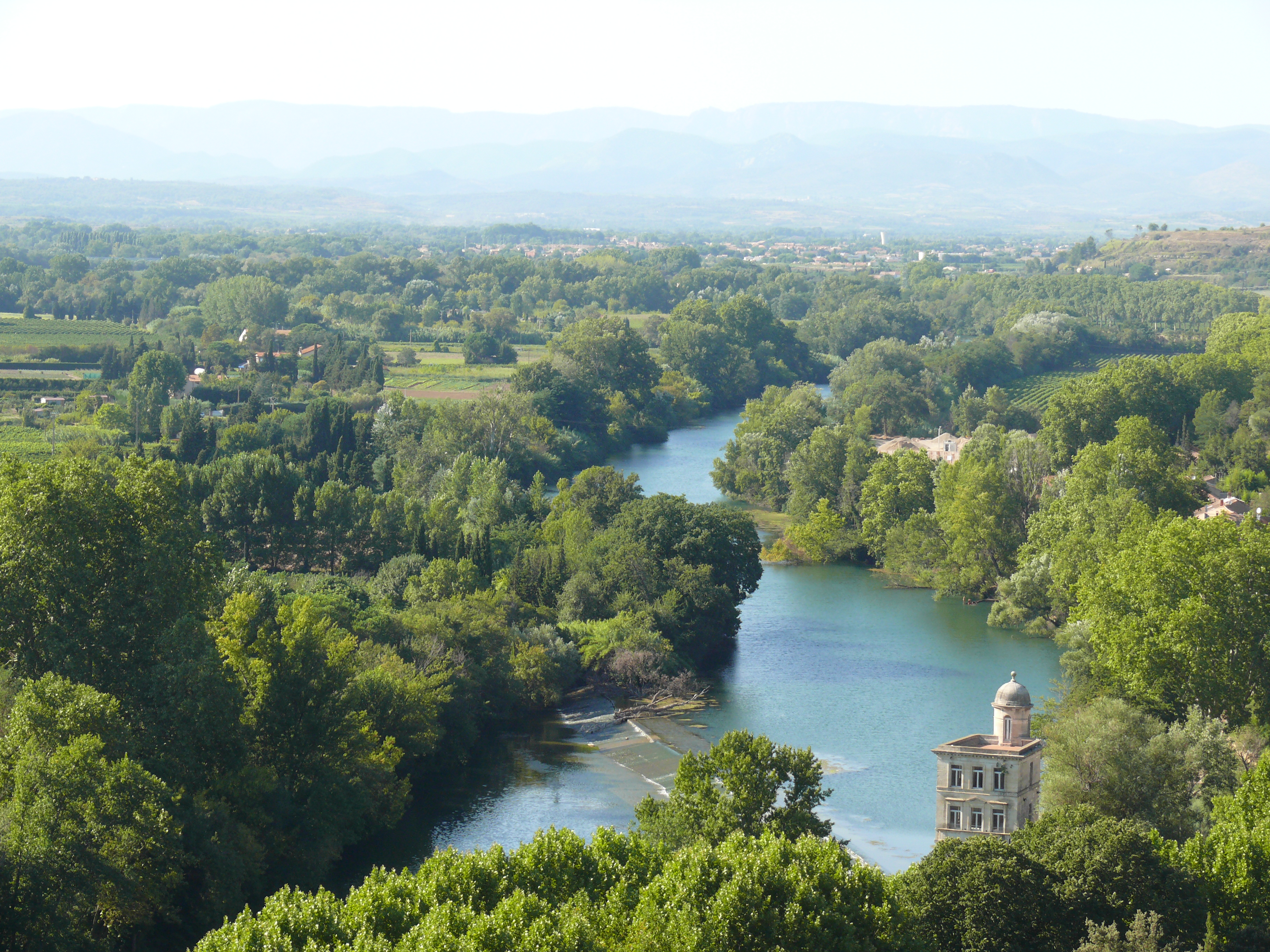 The River Orb close to Beziers in Southern France viewed from the city center